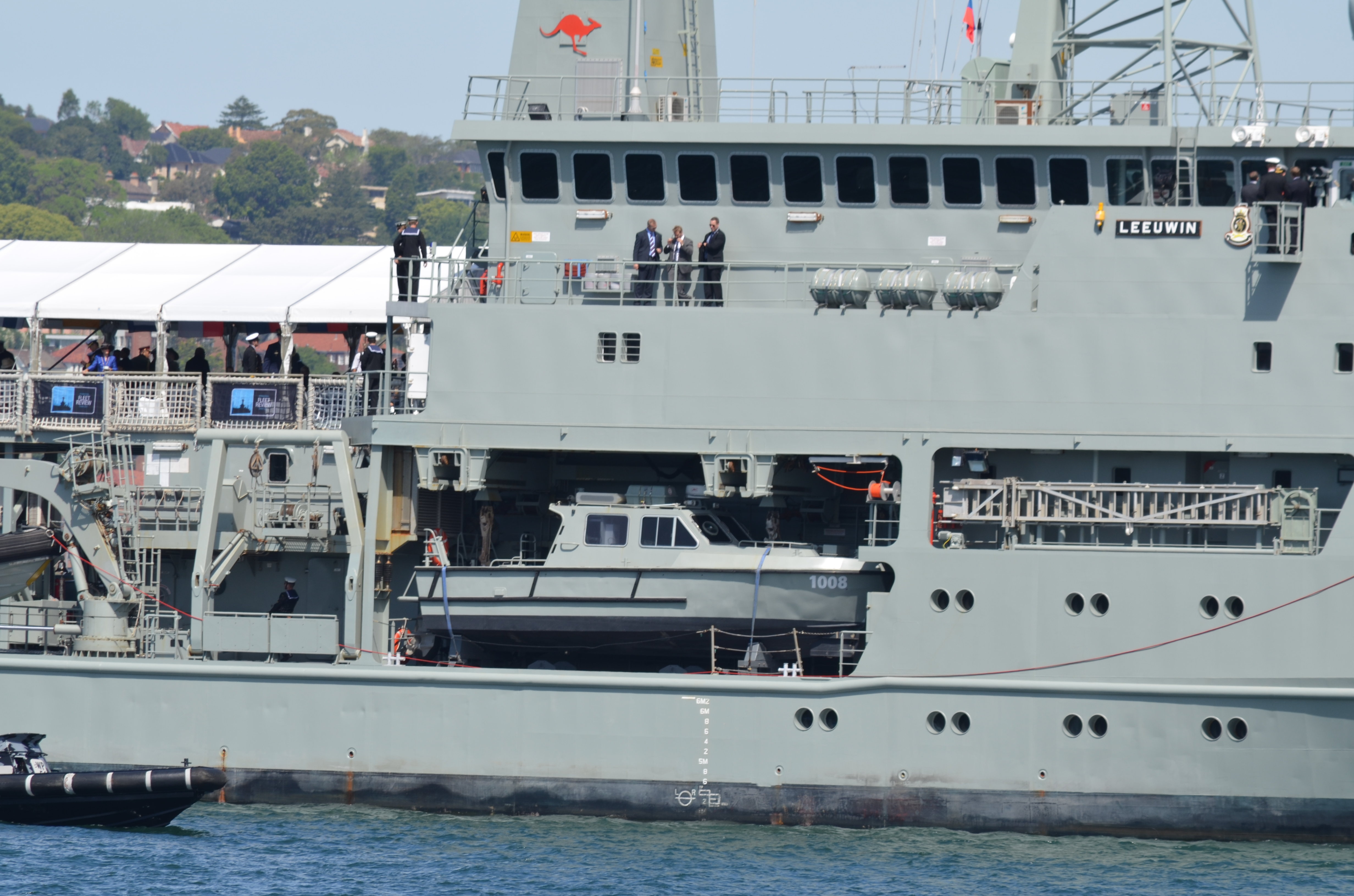 Photographs taken during day 3 of the Royal Australian Navy International Fleet Review 2013. Closeup of amidships of HMAS Leeuwin, underway while reviewing the fleet. The survey launch Duyfken is being carried.